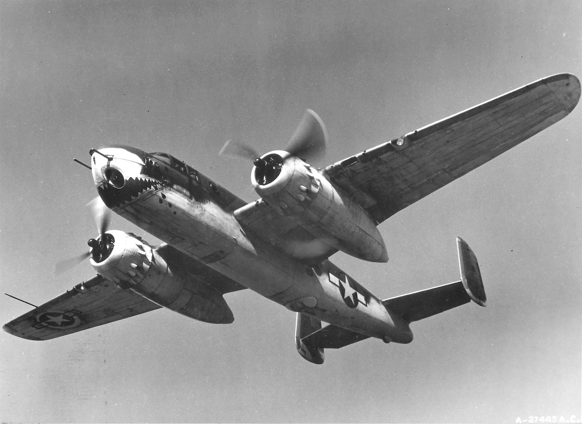 North American's B-25G Mitchell from the AAF TAC Center, Orlando, Florida, April 17, 1944. The crew of the B-25G was five--pilot, copilot, navigator/cannoneer, upper turret gunner, and radio operator. Since there was no bombardier, the pilot fired the nose armament and released the bombs. The radio operator also doubled as the ventral turret gunner when this turret was fitted. Additional armor was fitted forward of the instrument panel, forward of the loader's station, around the 75-mm ammunition rack, and below the windshield. An external flak plate was fitted below the cockpit on the left hand side of the aircraft.